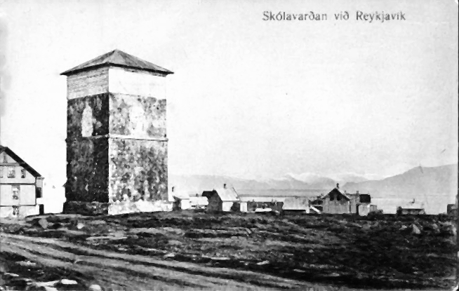 Icelandic postcard published in 1921 by the now defunct company O. Johnson and Kaaber (all rights reserved). Photographer not mentioned. Scan from original.